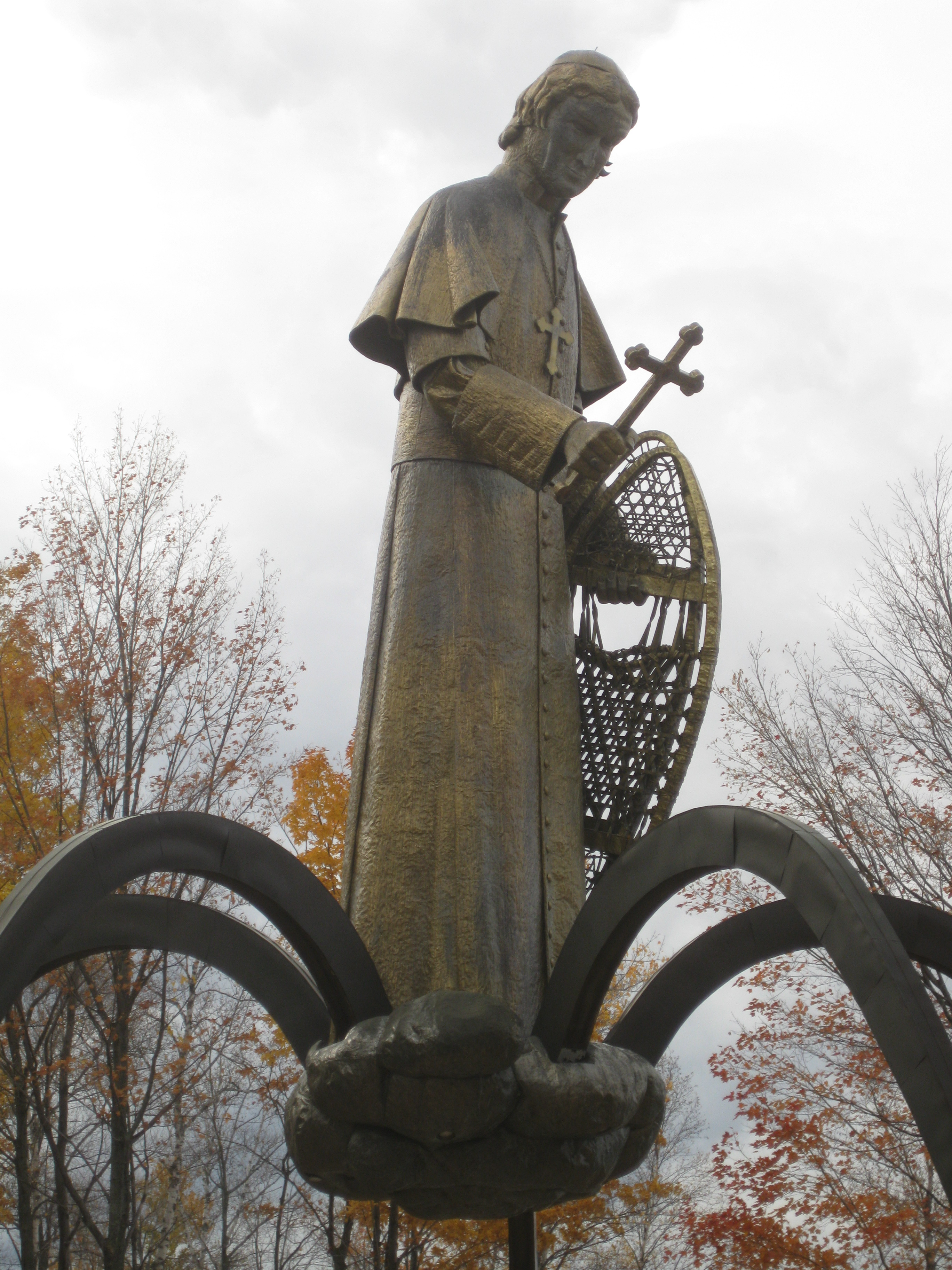 Snowshoe Priest sculpture of Priest Baraga by artist Jack E. Anderson